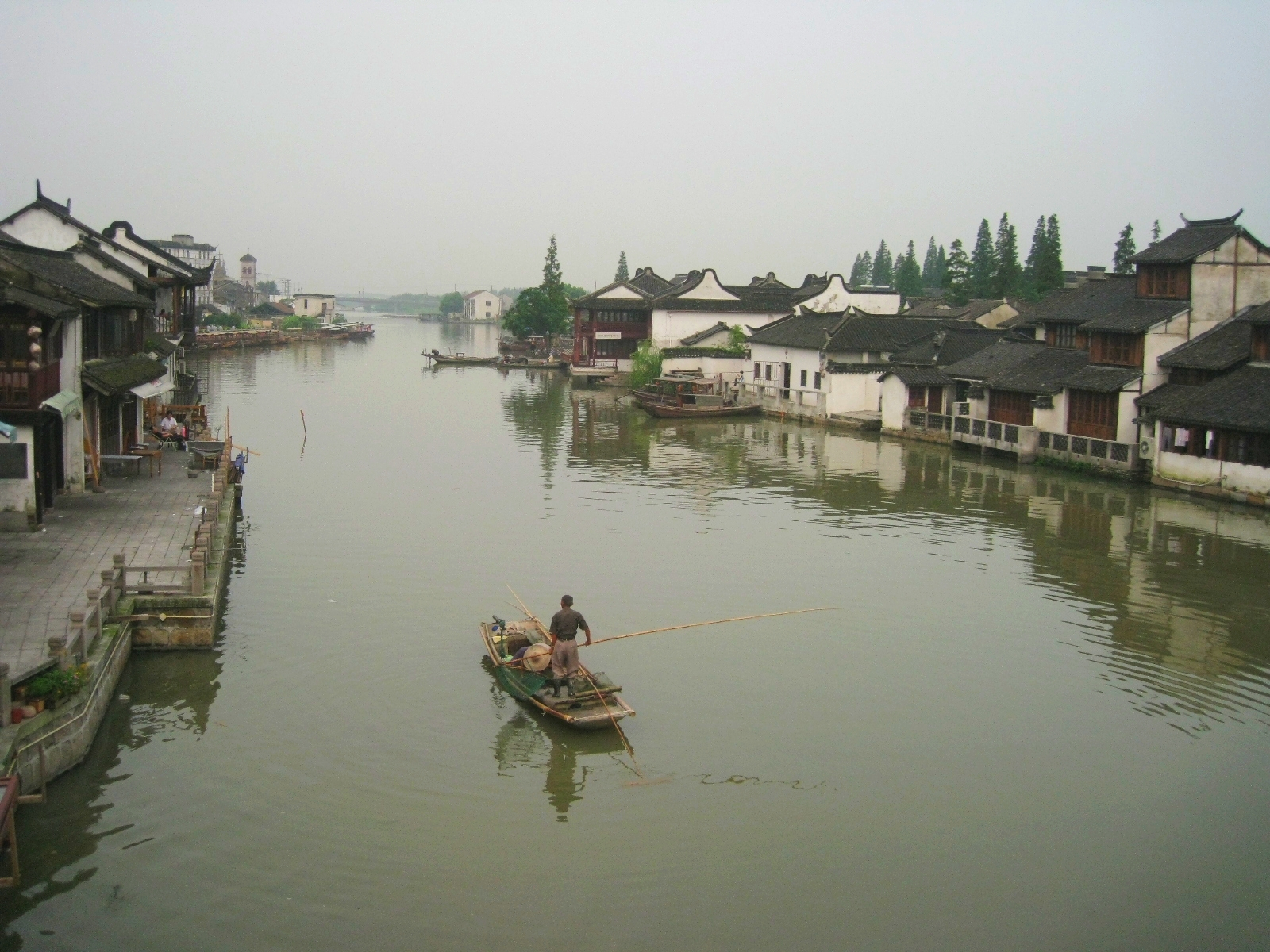 Wide river in Zhujiajiao 朱家角 Zhūjiājiǎo Zhèn an ancient town located in the Qingpu District of Shanghai.